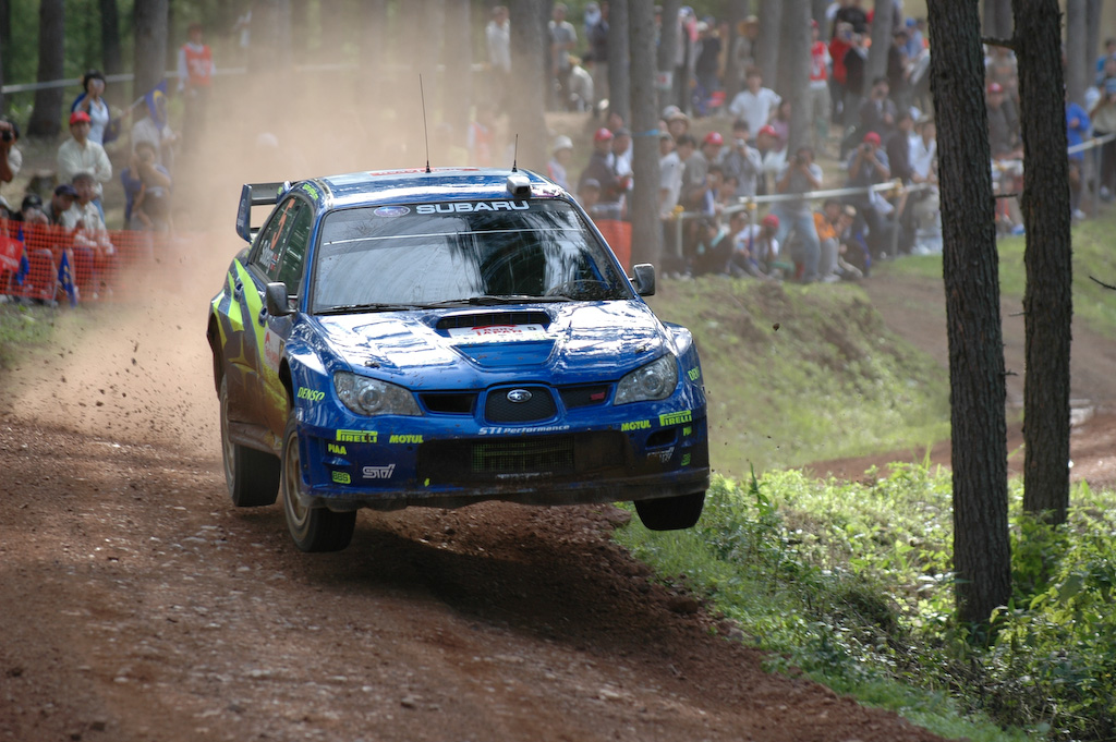 Petter Solberg driving his Subaru Impreza WRC at the 2006 Rally Japan.